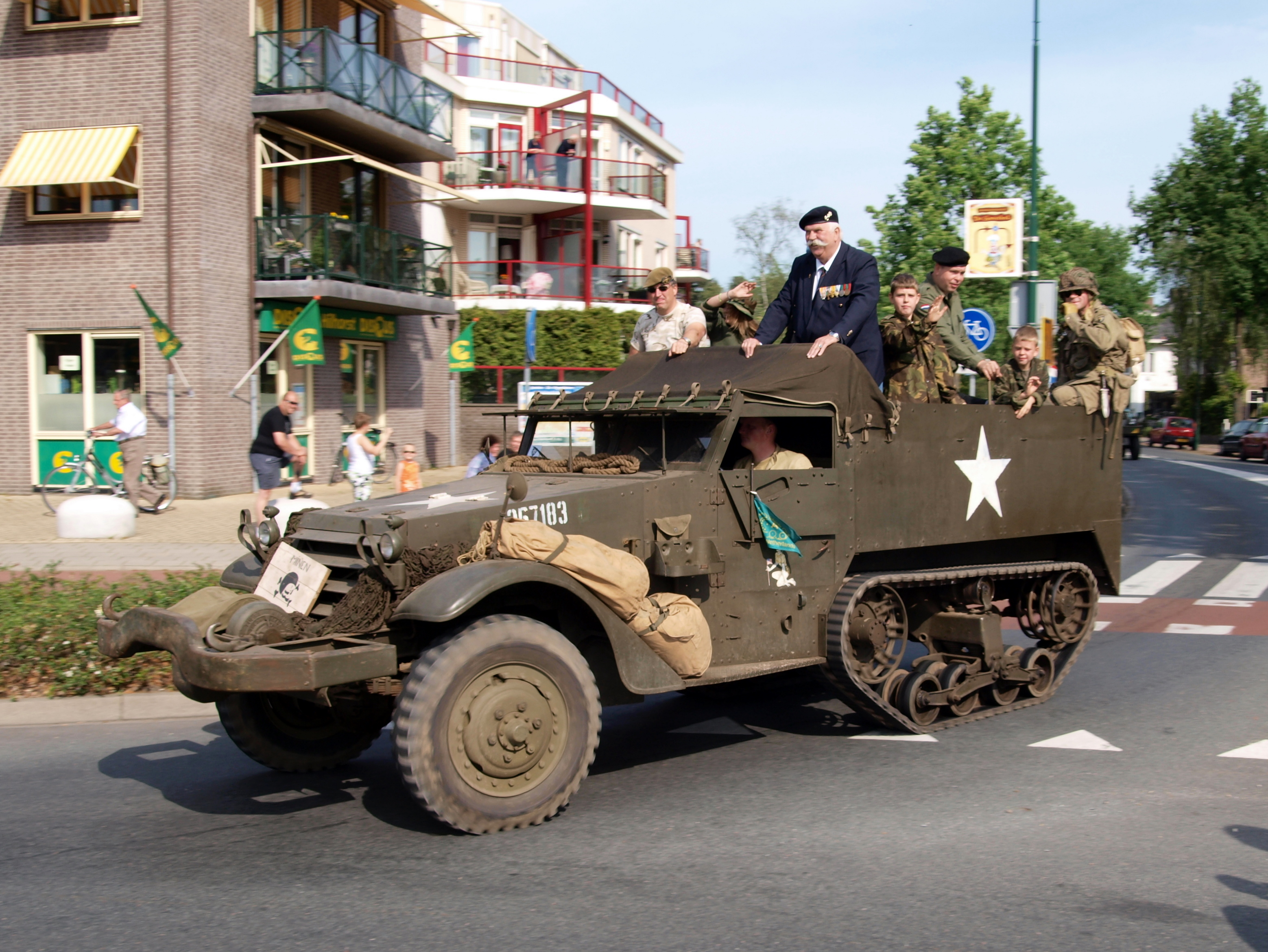 White M3 halftrack 1257183, Bridgehead 2011